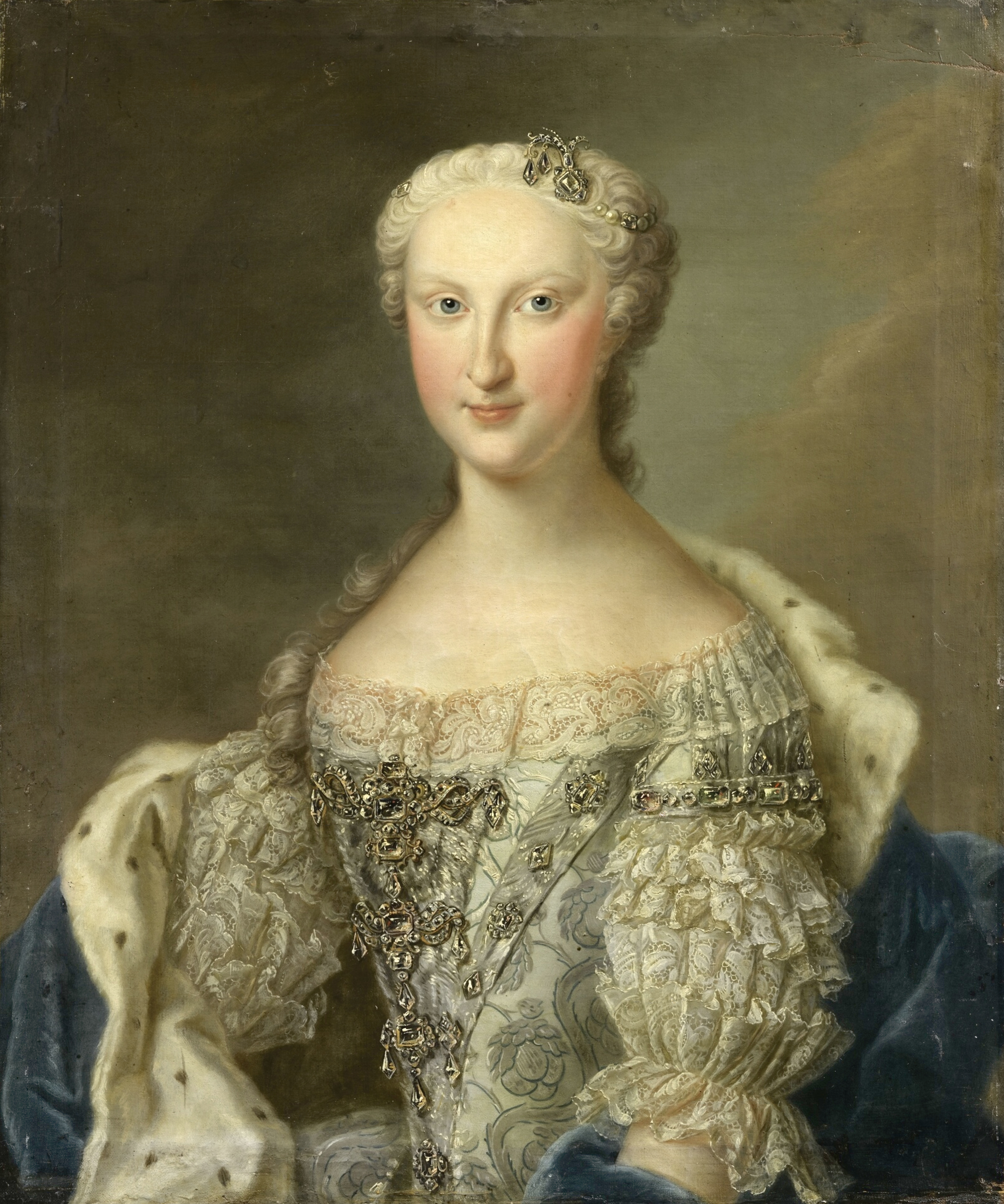 Marie Thérèse Raphaëlle of Spain, Dauphine of France (1726-1746)